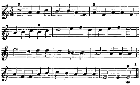 An illustration from the Encyclopaedia Biblica, a 1903 publication which is now in the public domain. Fig. 27 for article "Music". Image of partial score for the Soteria festival, which was dedicated to Apollo. The music is in the Phrygian mode. This ancient piece of music was re-discovered at Delphi in 1893.